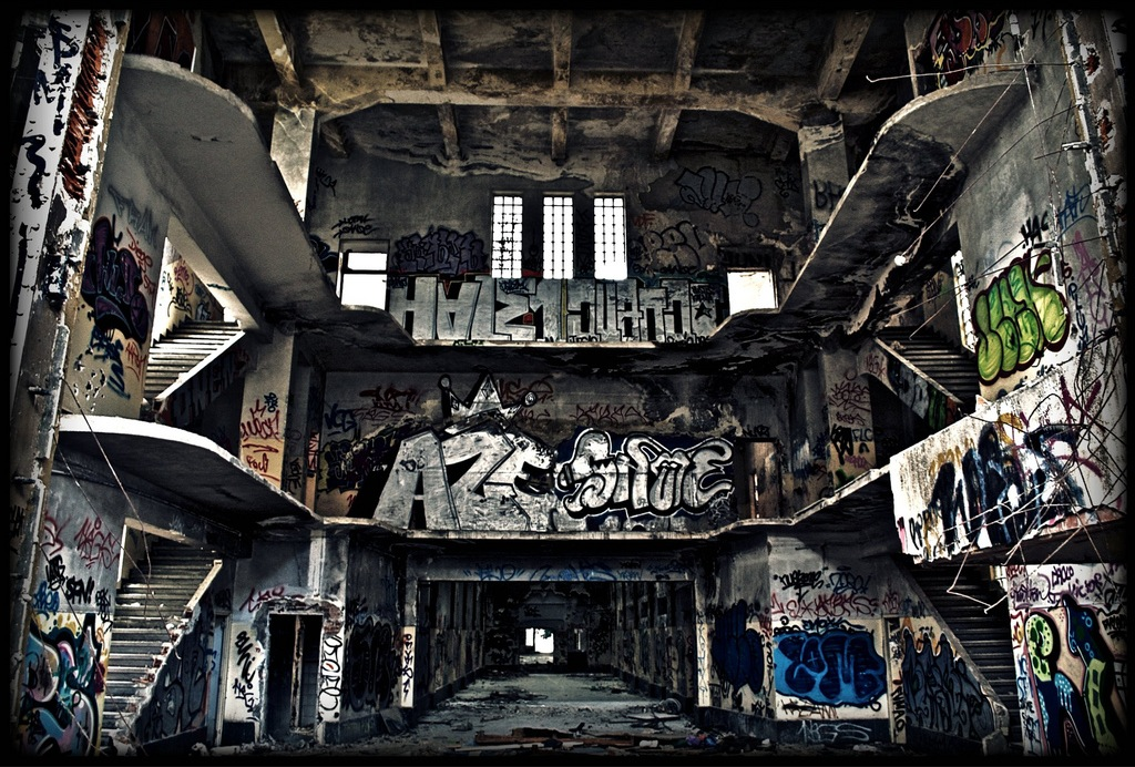 Carabanchel Prison Today